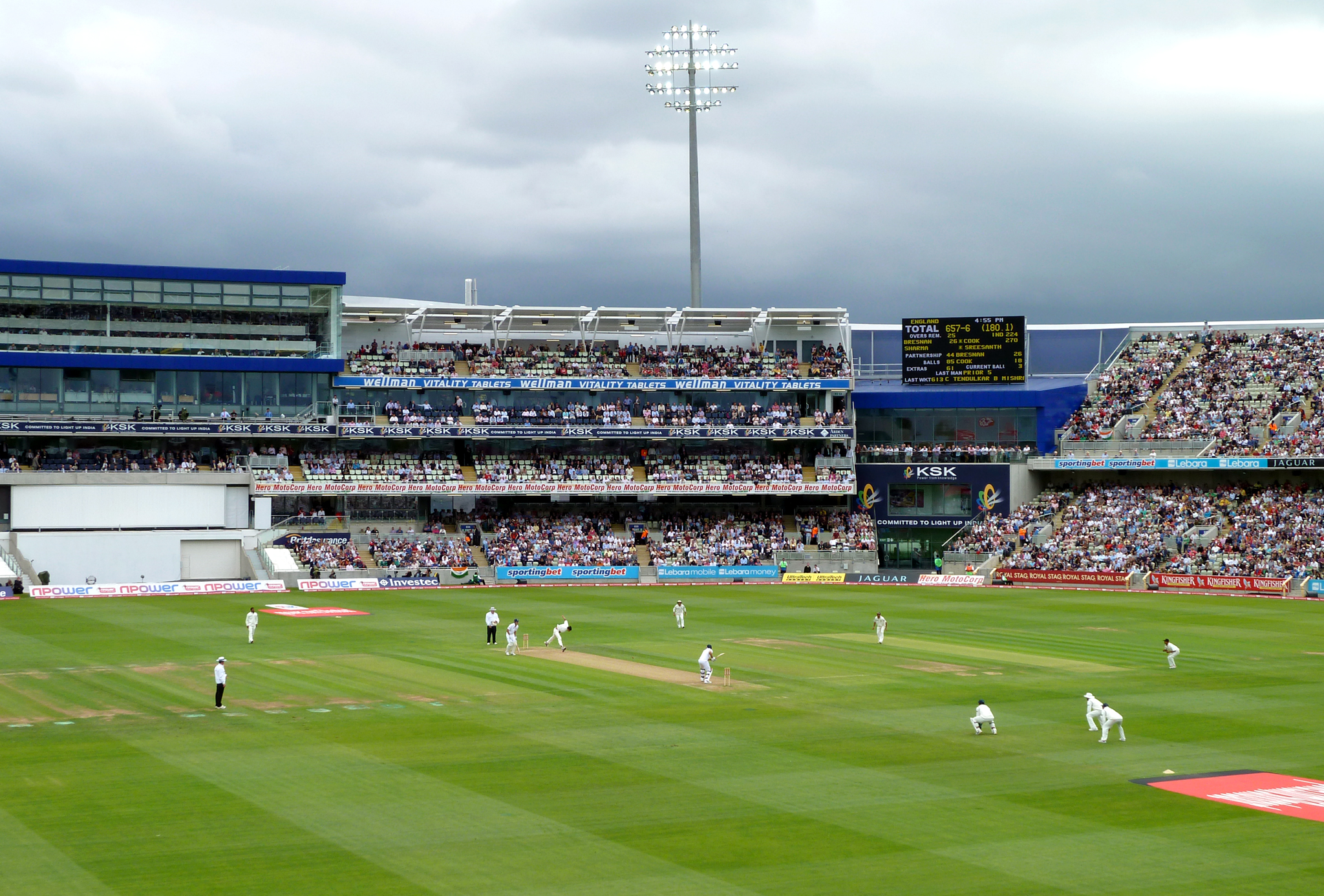 Ishant Sharma bowls to Tim Bresnan on Day 3 of the England vs India Test match at Edgbaston Cricket Ground, Birmingham.